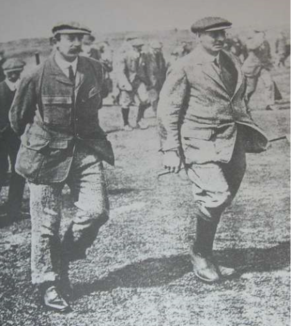 English golfers Tom Williamson (left) and Harry Vardon (right), circa 1910